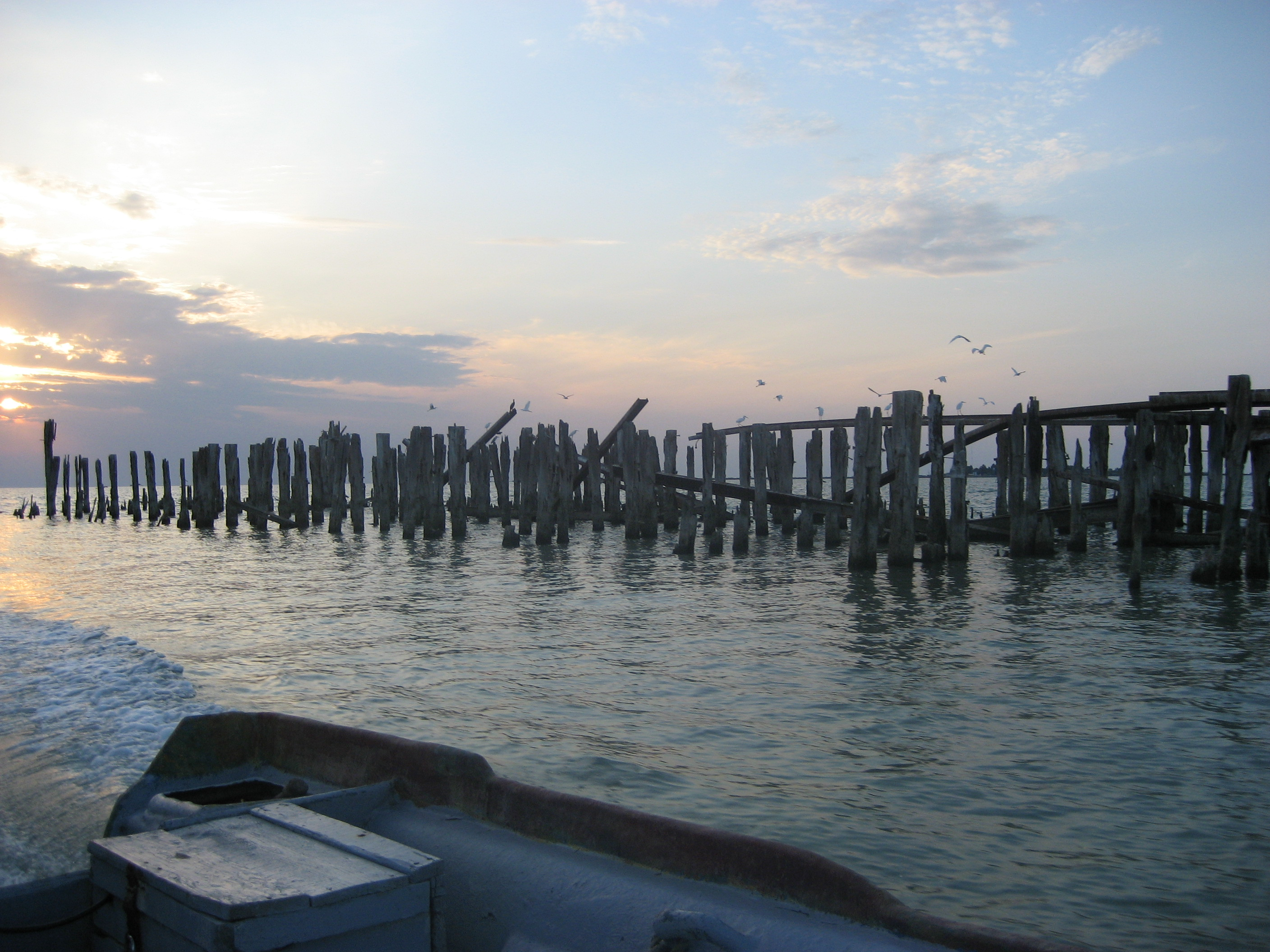 Ashuradeh, Iran. Remnants of an old railway